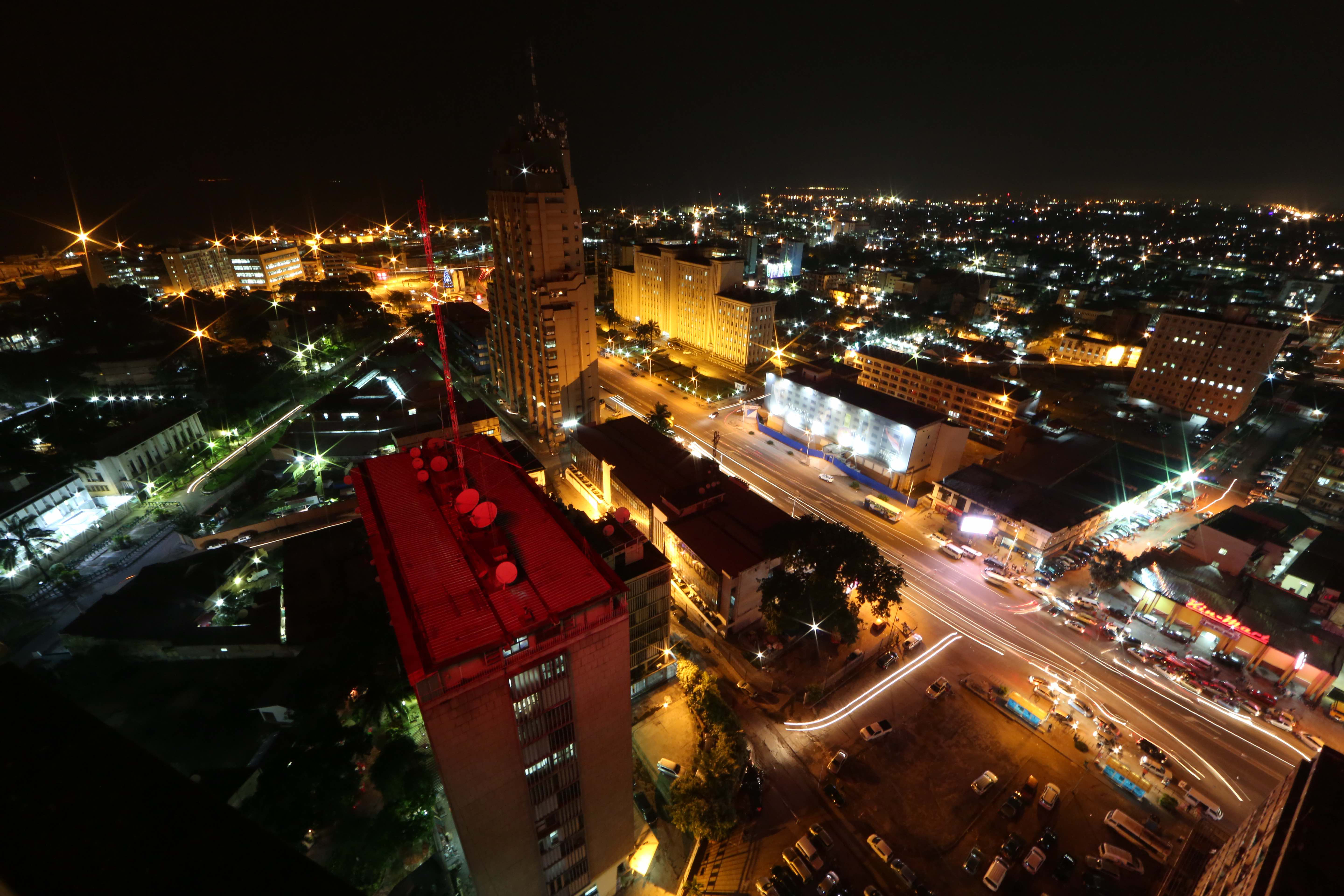 LEGENDE : Kinshasa, RD Congo : vue nocturne depuis un immeuble du centre-ville de la capitale congolaise. Photo MONUSCO/Abel Kavanagh CAPTION: Kinshasa, DR Congo: night view of the Congolese capital, captured from the top of a building in the city center. Photo MONUSCO/Abel Kavanagh